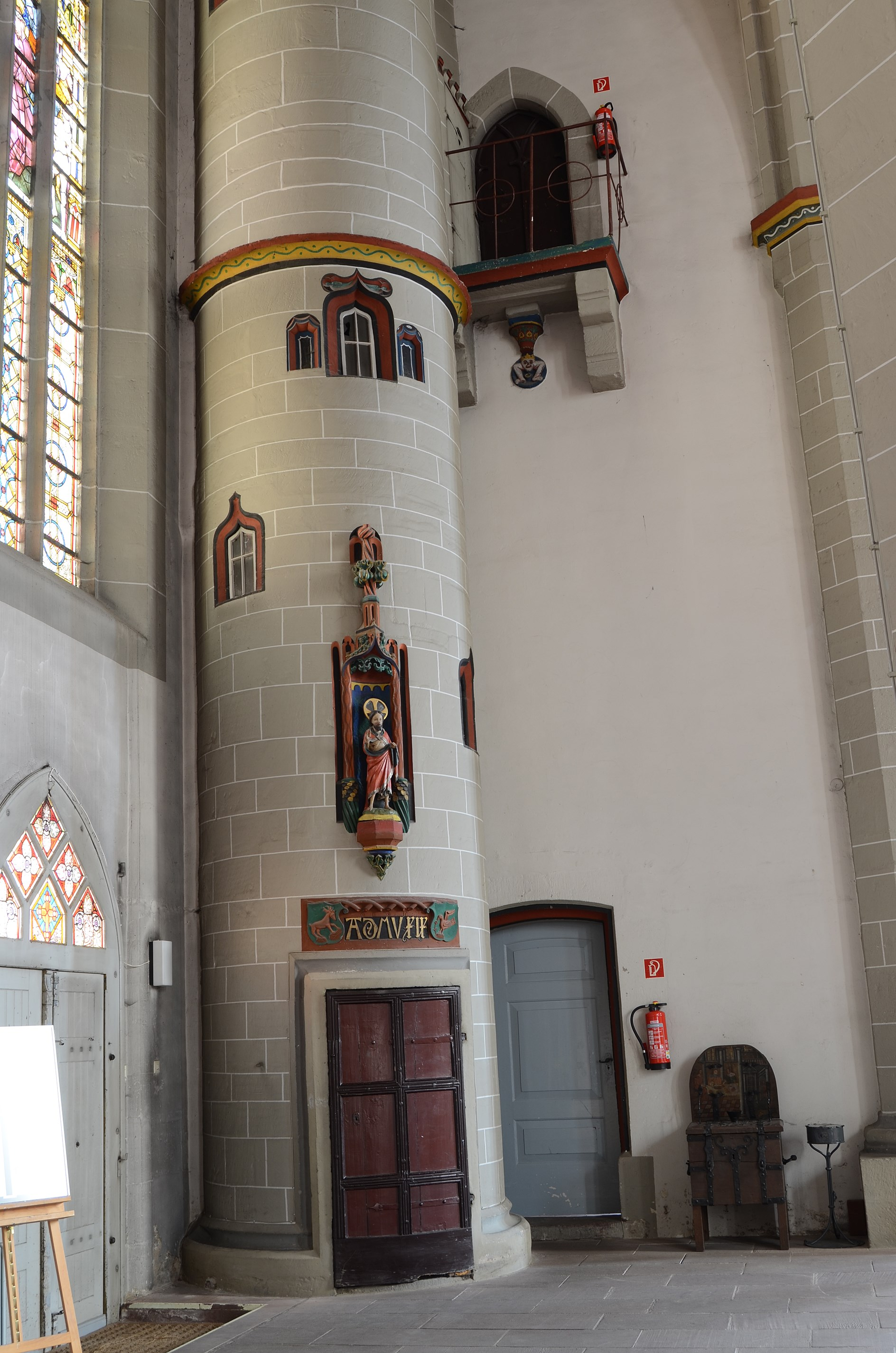 This is a photograph of an architectural monument.It is on the list of cultural monuments of Northeim This photograph was taken with a Nikon D7000 Northeim, Evangelisch-lutherische Kirche St. Sixti, Innenansicht